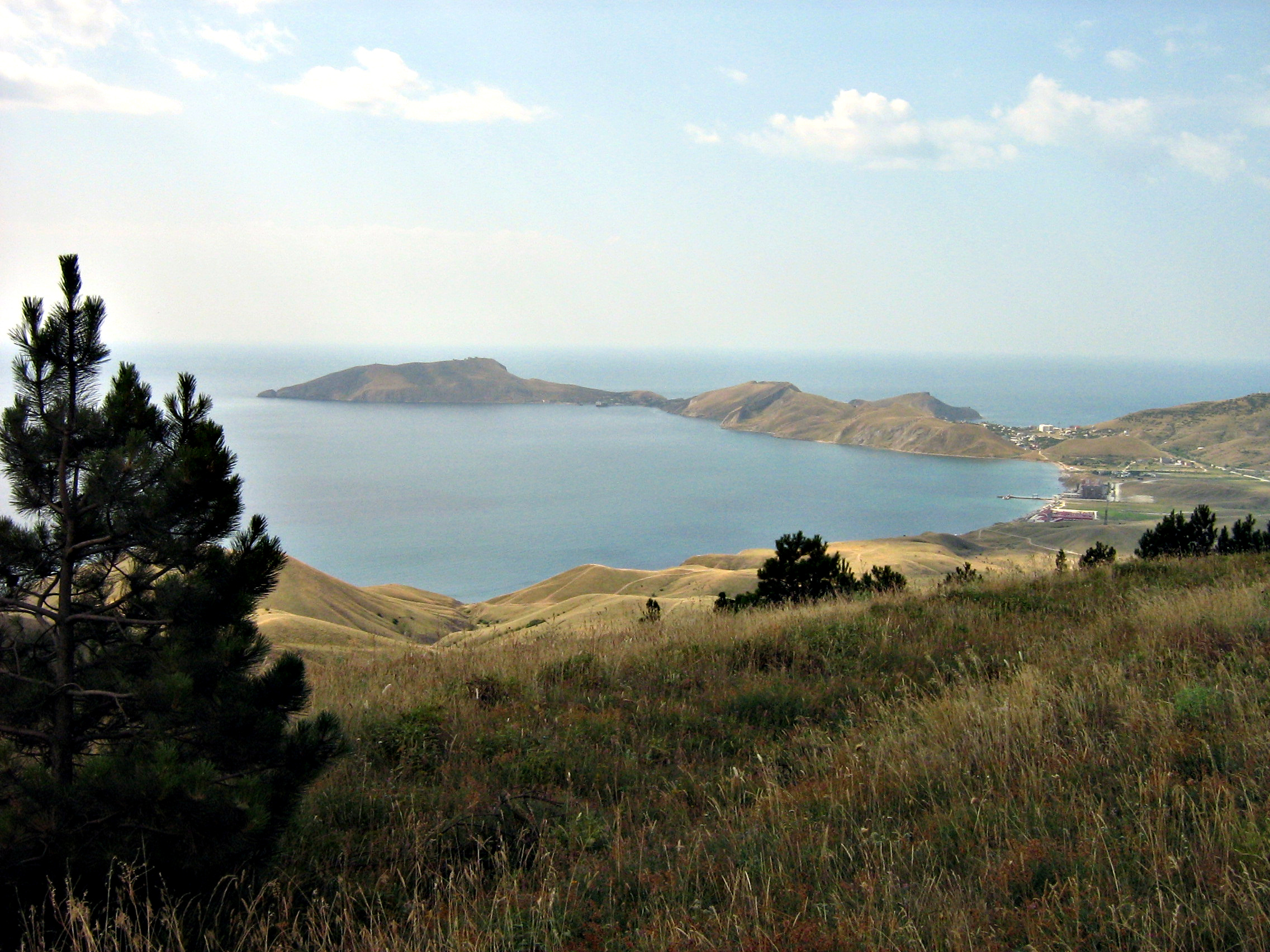 Crimean mountains. View to Kiik-Atlama beach. Ukraine.